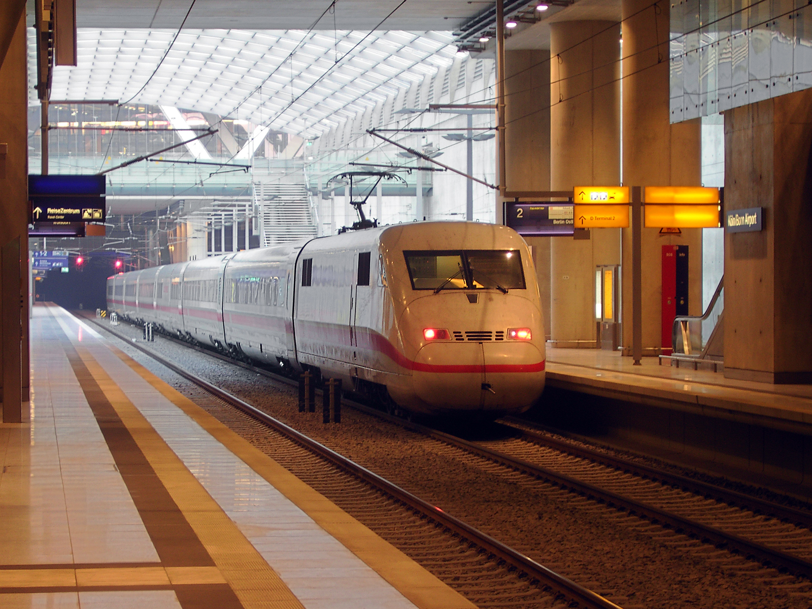 ICE2 at Köln/Bonn Airport station